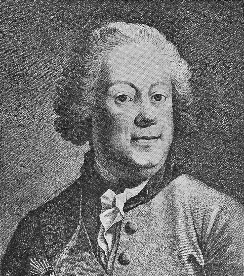 Johann Albrecht von Korff (1697-1766)